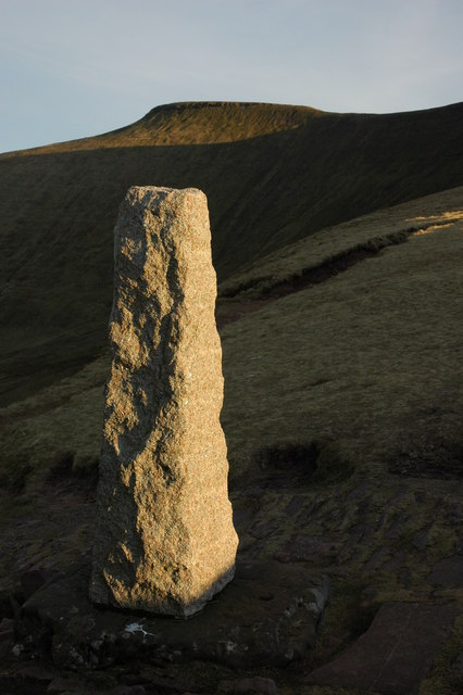 Tommy Jones Memorial Memorial to Tommy Jones a 5 year old boy whose body was found on this spot on the north-western slopes of Corn Du in September 1900, he had become lost on 4 August, a month earlier. Pen y Fan can be seen in the background.